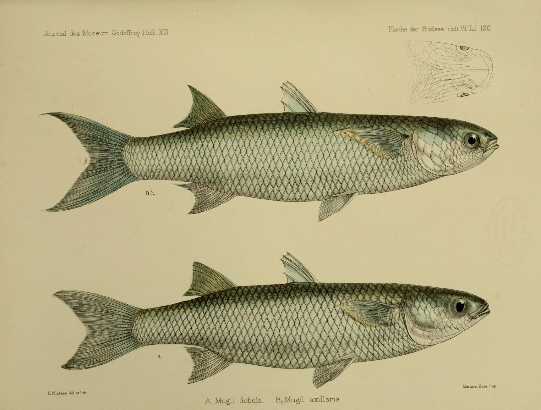 As file